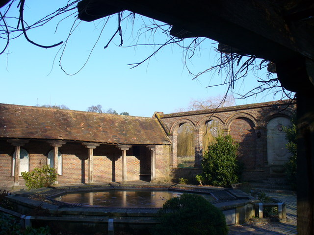 Phillips Memorial Cloister Commemorating Godalming's famous son who went down with the Titanic. Jack Phillips was the telegraphist who kept trying to raise help till the end.